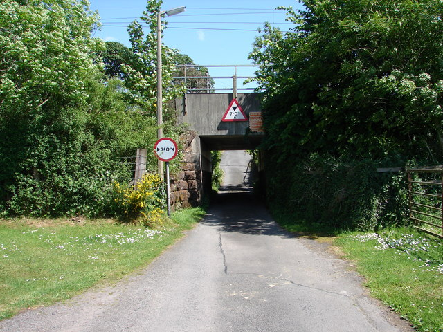 Plantationfoot Railway Bridge The road under the West Coast Main Line at Newton/Plantationfoot has a very limited headroom of 7x7ft (2.13m). Above left was the site of Wamphray Station, closed 1960.